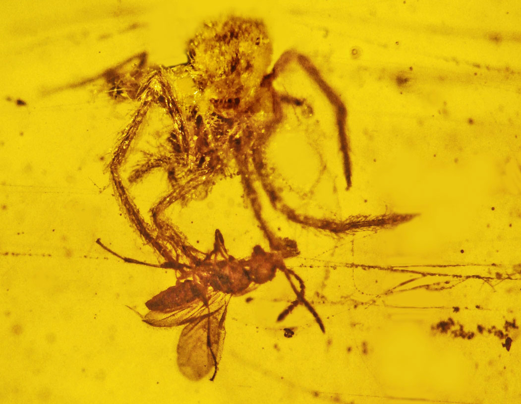 This is the only fossil ever discovered that shows a spider (Nephila burmanica syn= Geratonephila burmanica) attacking prey (Cascoscelio incassus) in its web. Preserved in amber, it's about 100 million years old. (Photo courtesy of Oregon State University)